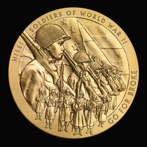 The medal's obverse (heads side) design features Nisei (second-generation Americans of Japanese ancestry) Soldiers from both the European and Pacific theaters. The 442nd RCT color guard is depicted in the lower field of the medal. The inscription “Go For Broke” is the motto of the 442nd RCT, and was eventually used to describe the work of all three units.